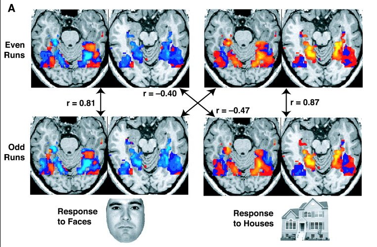 NIMH is a US government agency. The logos at the tail end of the fmrif website note the agencies involved ( All are US government agencies. The paper this image is taken from was submitted by researchers at NIMH (all authors), working using fMRIF's 3 T GE scanner ( The abstract of the paper is here